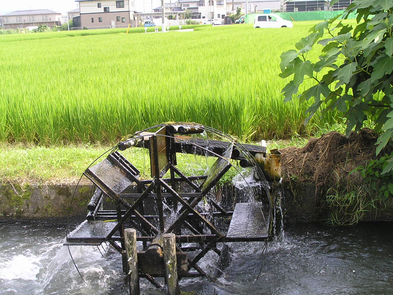 Agricultural Watermill of Sukeyasu, Kurashiki City